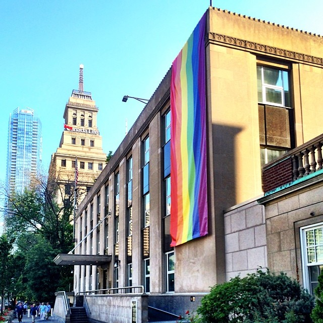 US Consular Services is ready for #WorldPride Toronto! #igerstoronto #prideto